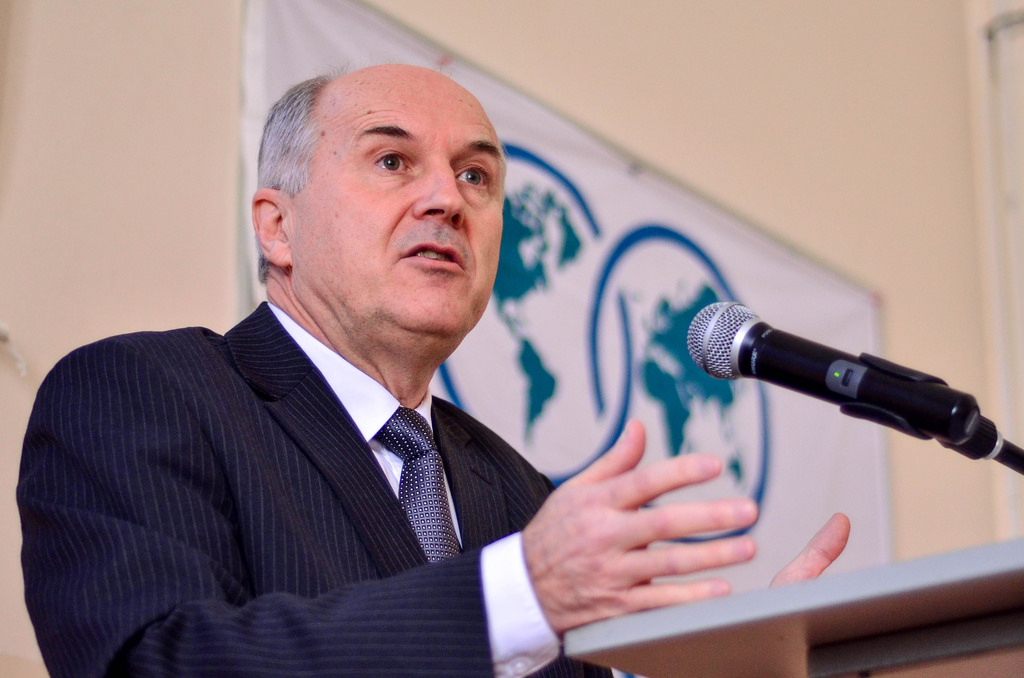 High Representative of Bosnia-Herzegovina Valentin Inzko speaking at the 8th Model United Nations in Mostar Conference at UWC Mostar.